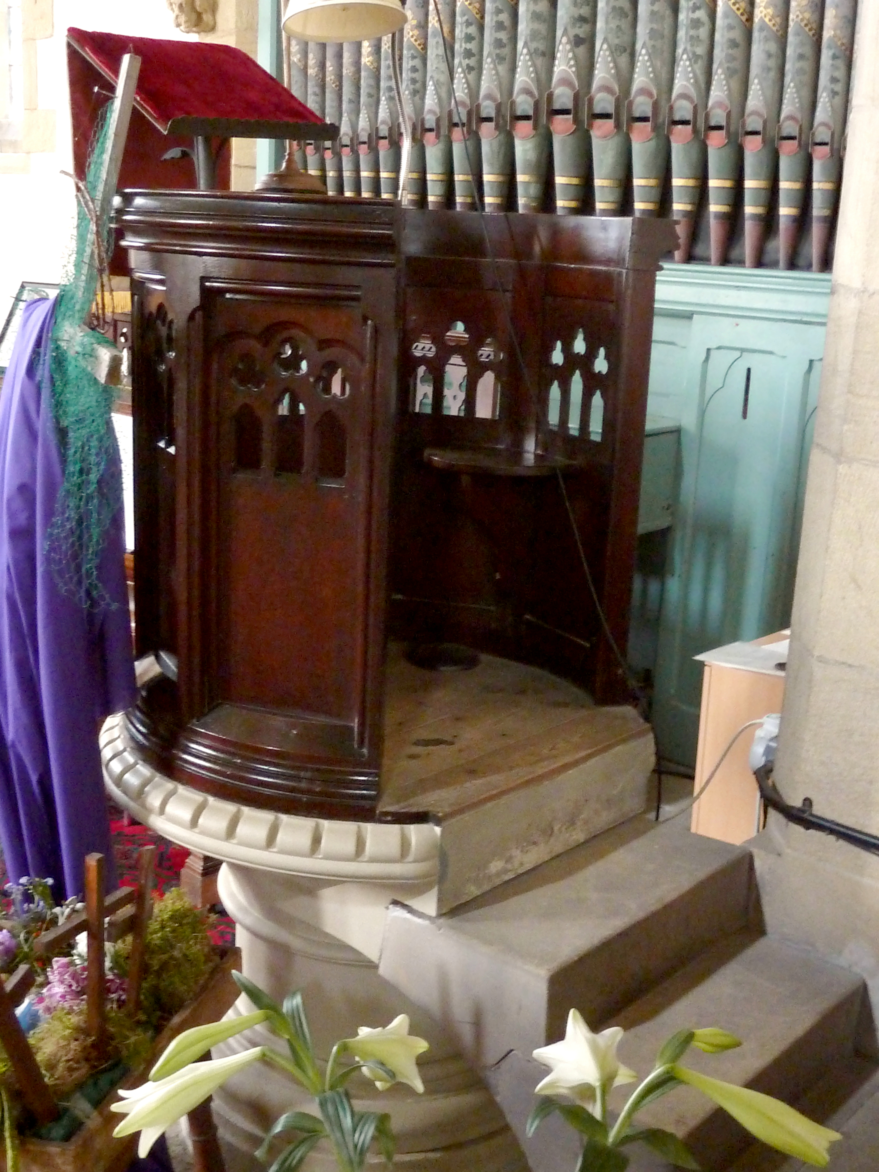 Interior of the Church of St Thomas, Thurstonland, Huddersfield, West Yorkshire, England. Built 1870, designed by James Mallinson and William Swinden Barber. 1870 carved wooden pulpit of 1870, on carved stone plinth.